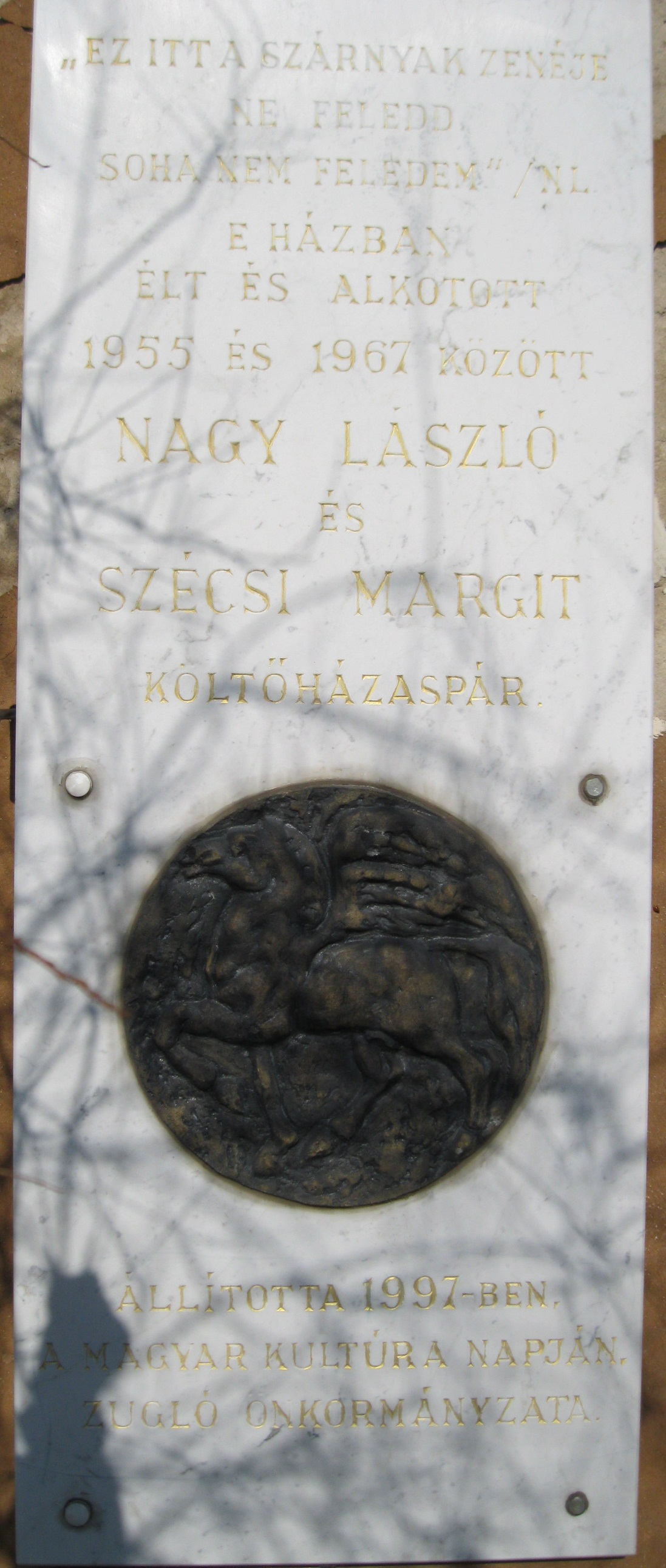 Commemorative plaque of the poet László Nagy and Margit Szécsi, Budapest District XIV, Wass Albert Square No 1 (on the corner of Bagolyvár Street and Wass Albert Square). It is fixed in 1997.